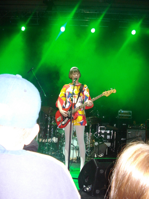 Inara George live supporting Lily Allen, Cambridge Corn Exchange 6/03/07.